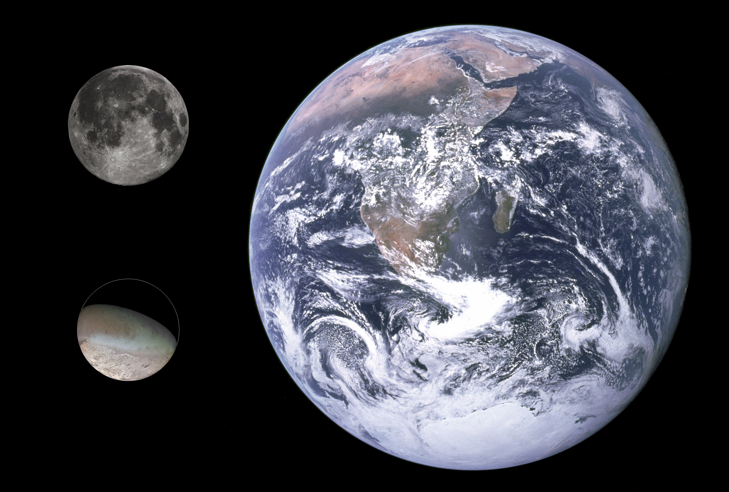 Diameter comparison of Triton, Moon, and Earth. Scale: Approximately 29km per pixel.